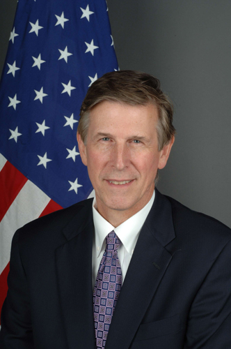 Donald Sternoff Beyer, Jr., U.S. diplomat. As of 2009, U.S. ambassador to Switzerland and Liechtenstein.